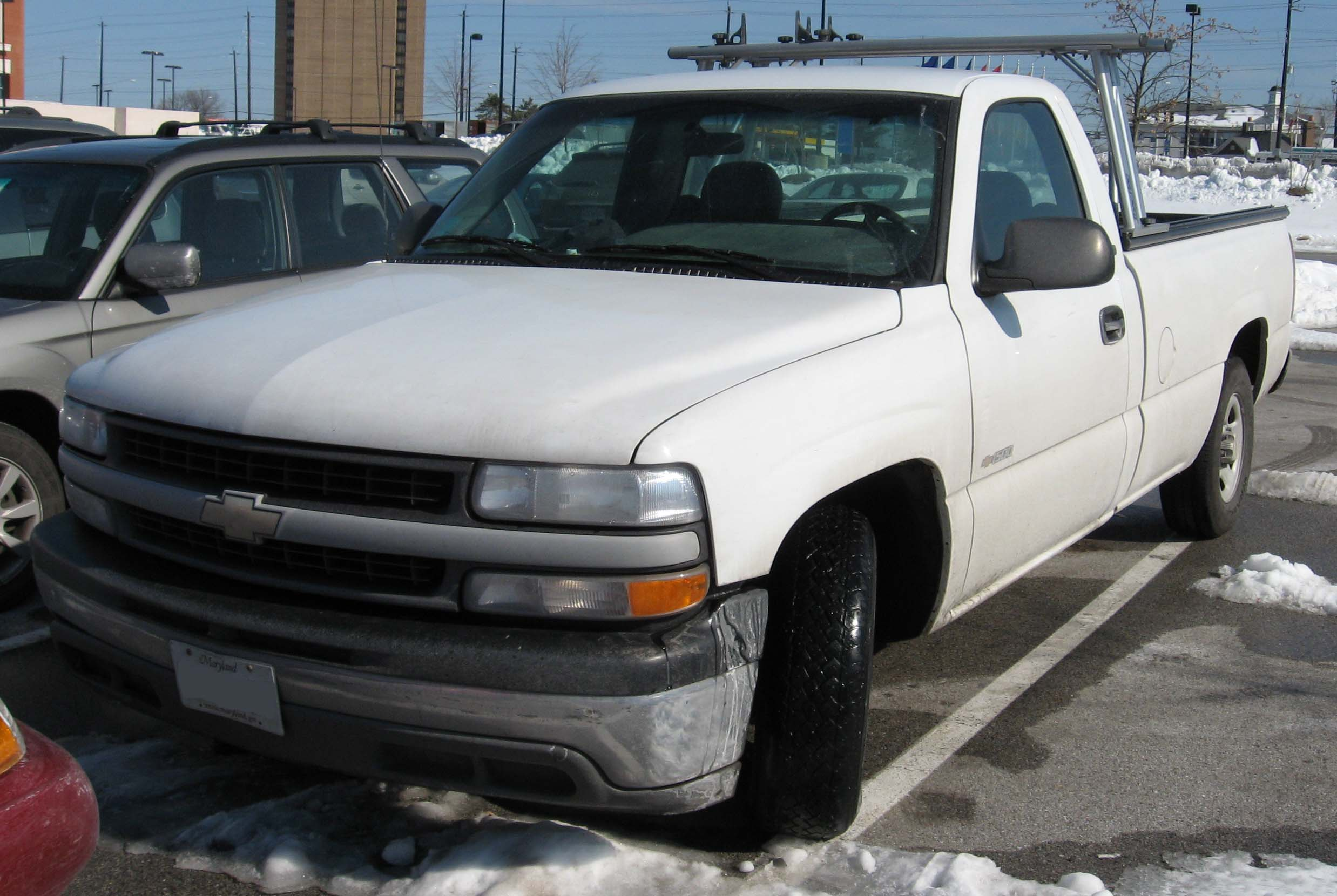 1999-2002 Chevrolet Silverado photographed in USA.